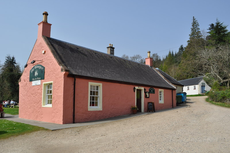 The Wineport - Cladach, near to Brodick, North Ayrshire, Great Britain. Formerly service buildings accociated with Brodick castle, one of the first buildings on the island to be slated. Former stables (in white) in the background). Now a bar.